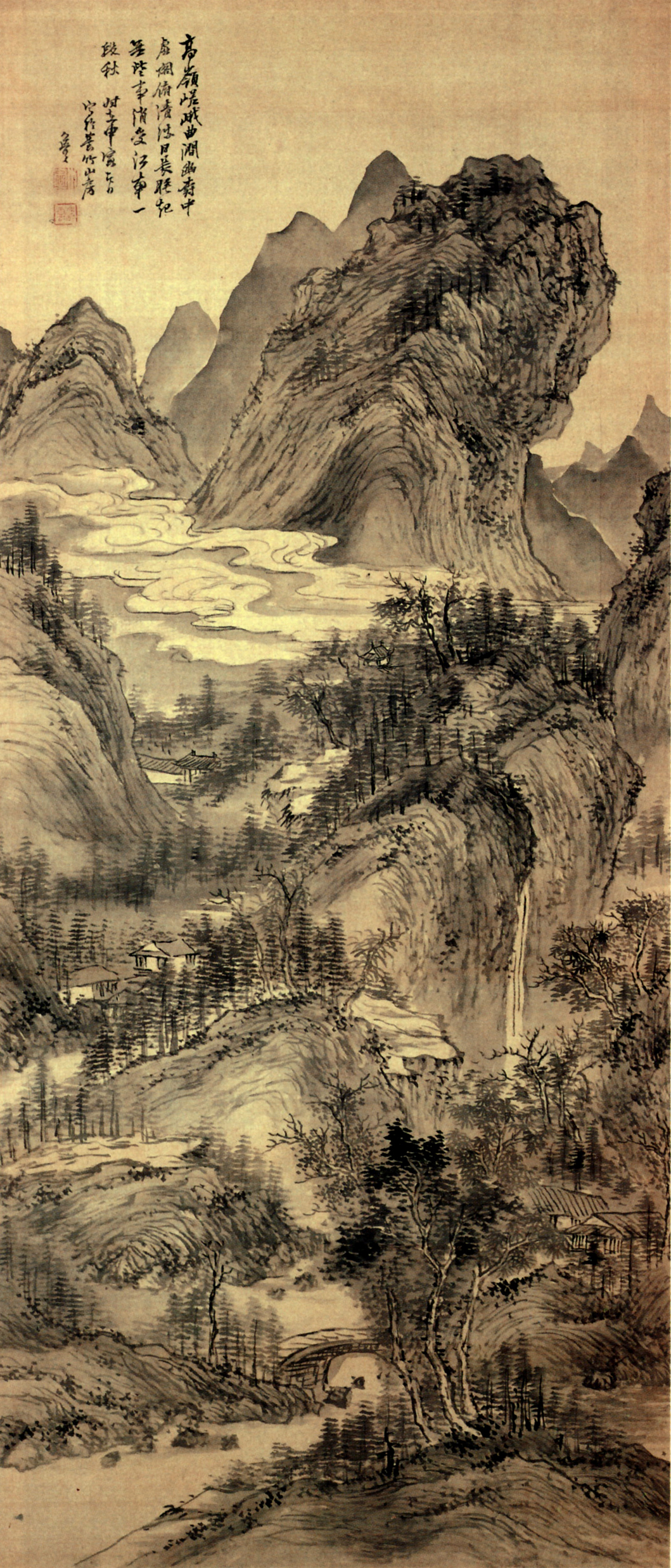 Kinoshita Itsuun,Autumn Landscape,ink on silk,hanging scroll